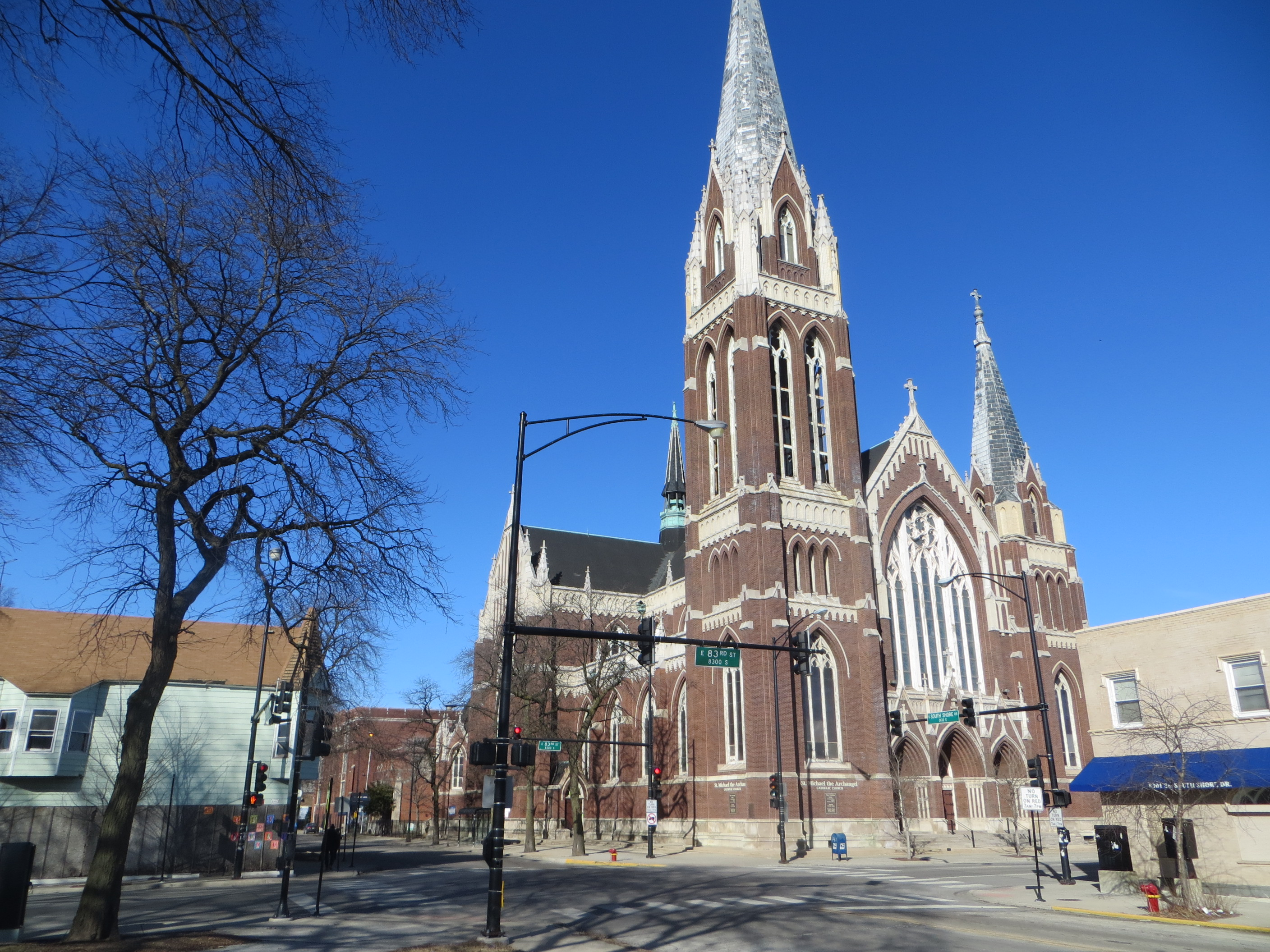 20160220 74 St. Michael the Archangel Church, South Shore Dr. @ 83rd St.